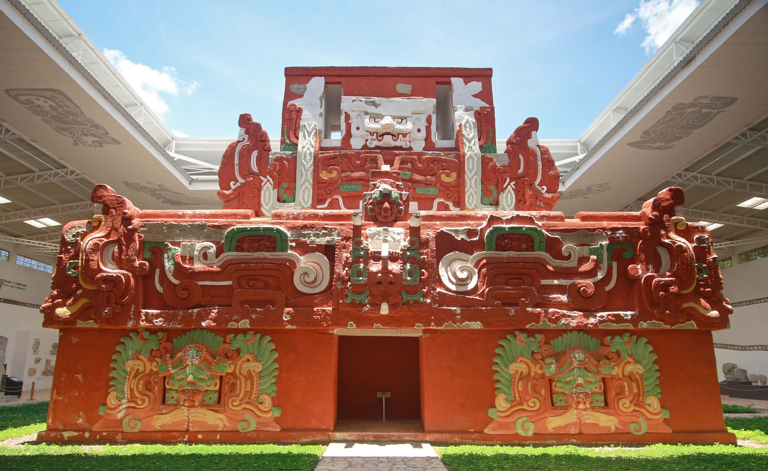 Rosalila. Copan, Honduras